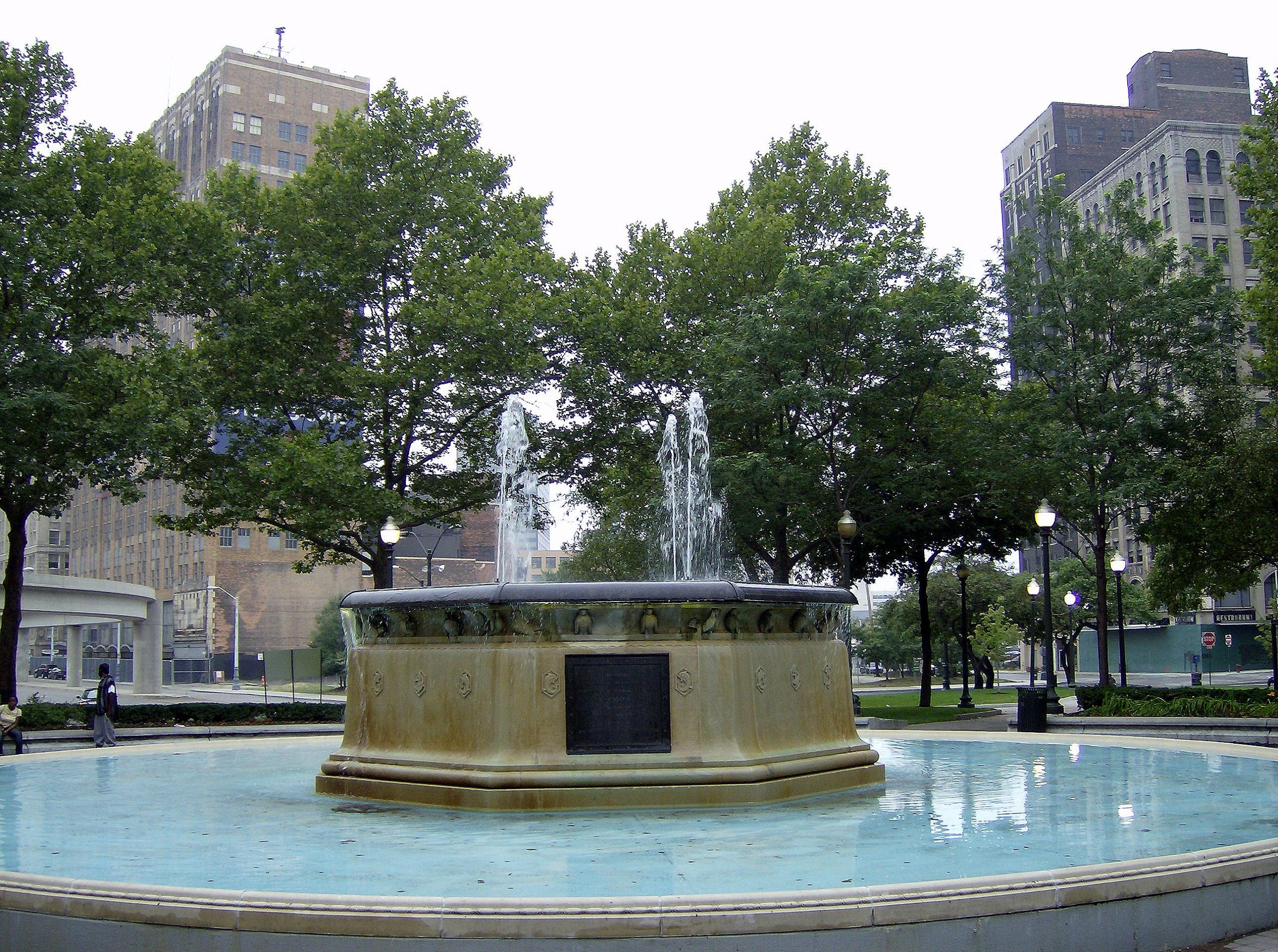 Fountain in Grand Circus Park, Detroit, Michigan